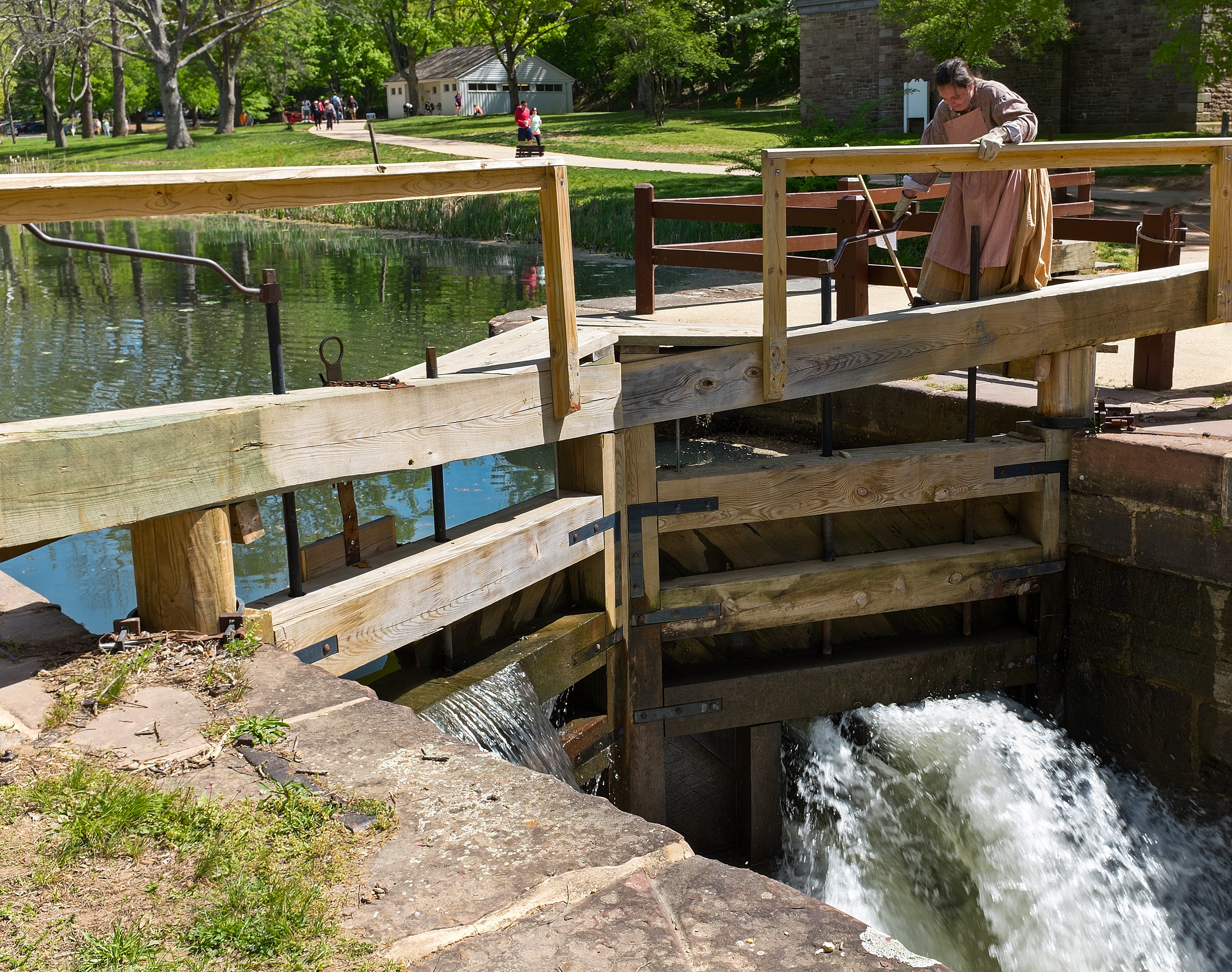 Opening paddle valves on gate of Lock 20, Chesapeake and Ohio Canal